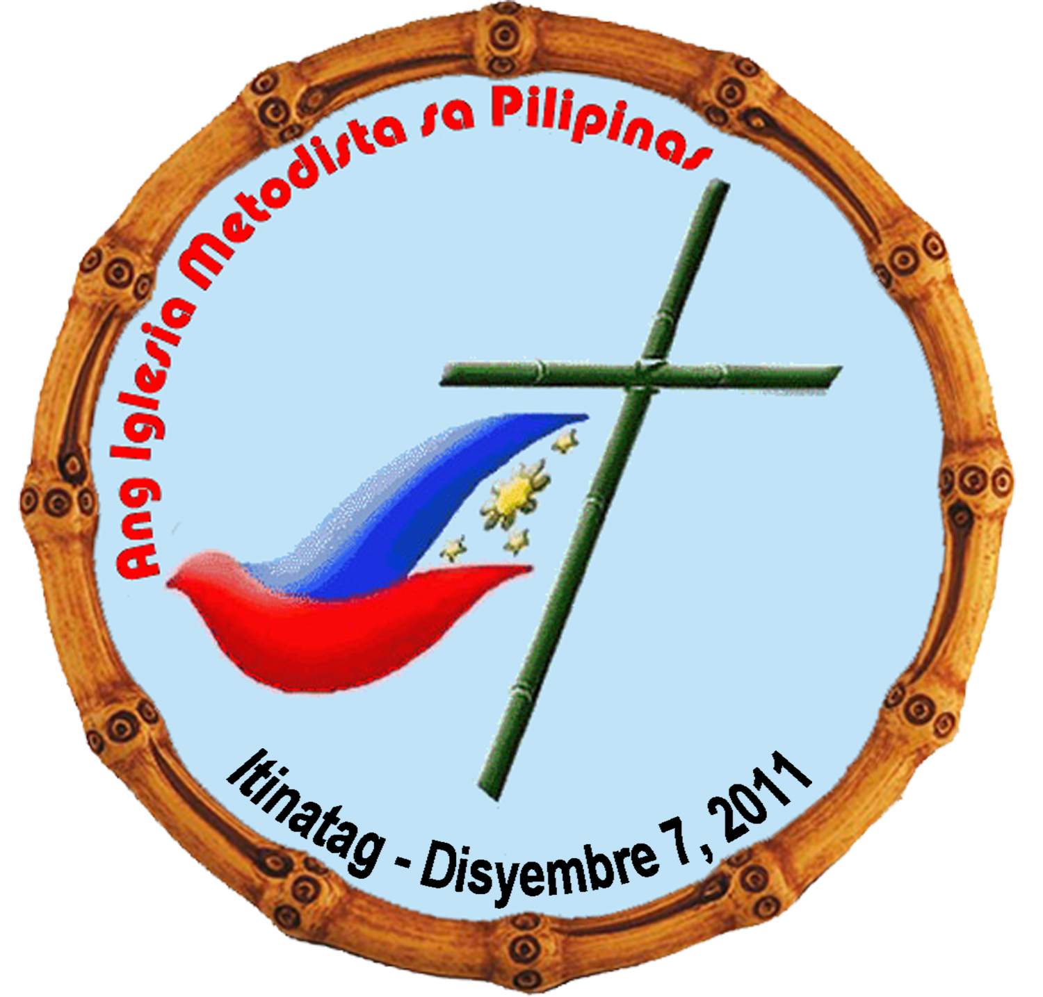 This is the logo created for Ang Iglesia Metodista sa Pilipinas through collaborative opinions of the church's procurators and ministers. The logo is owned and created by Joefran4